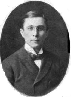 Portrait of New York assemblyman J. Samuel Fowler